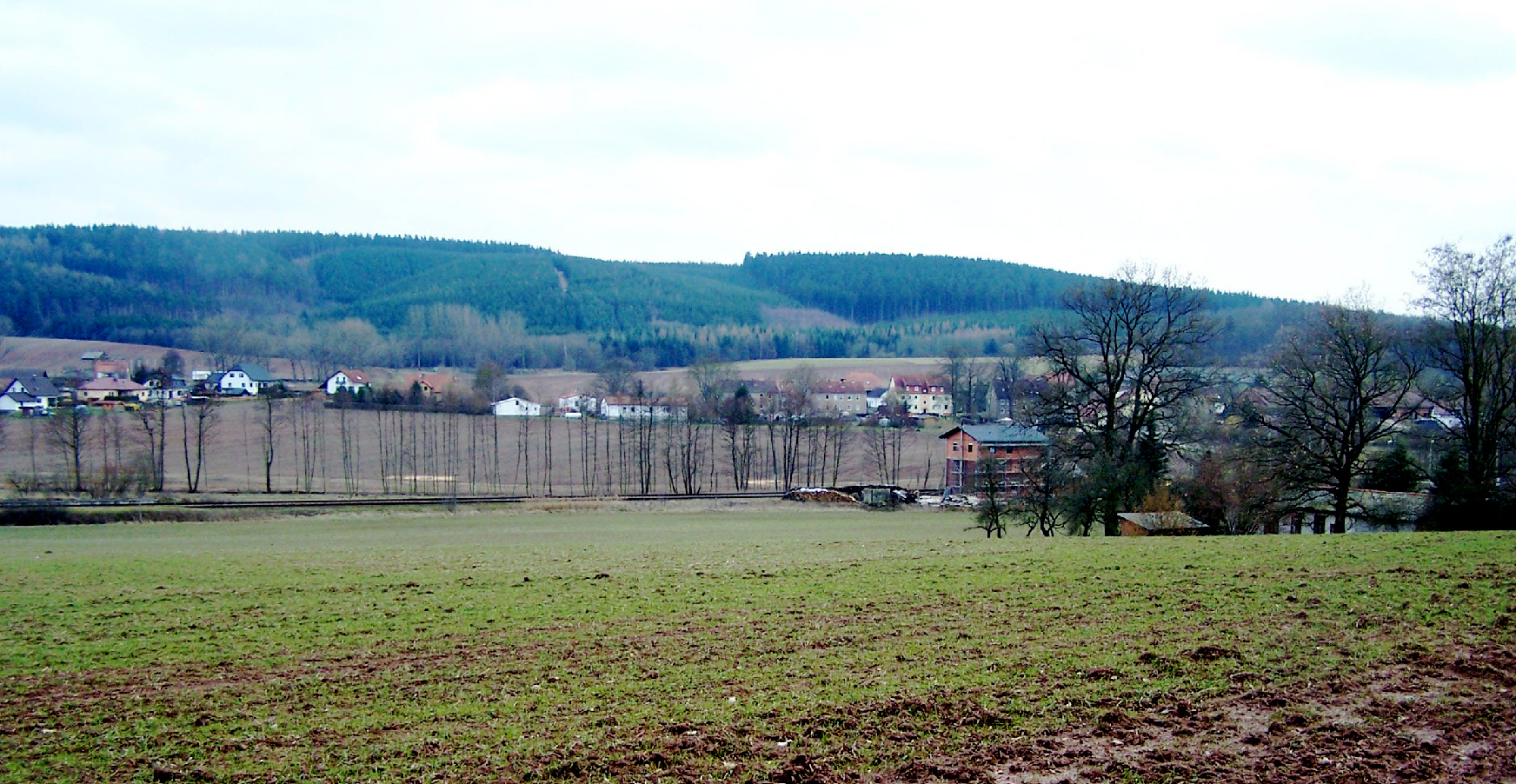 Oberrohn village.